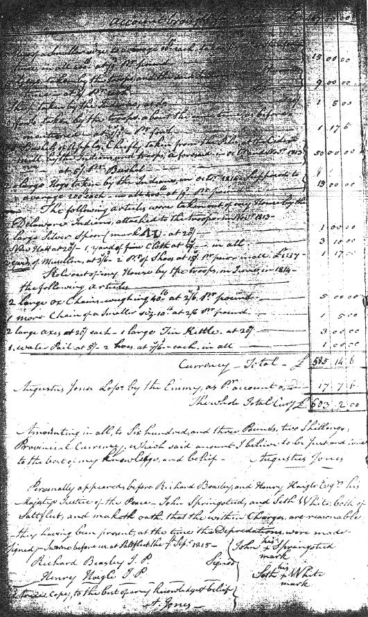 Augustus Jones' claim form for damages incurred to his property during the War of 1812